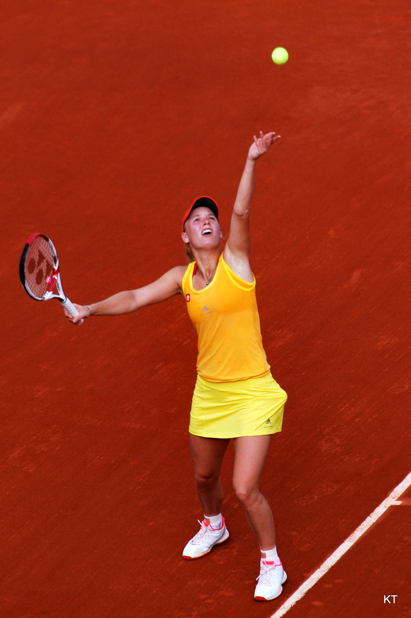 Caroline Wozniacki serves during her 3rd round match with Kaia Kanepi. Kanepi won 6-1, 6-7, 6-3. Day 7 of Roland Garros 2012.